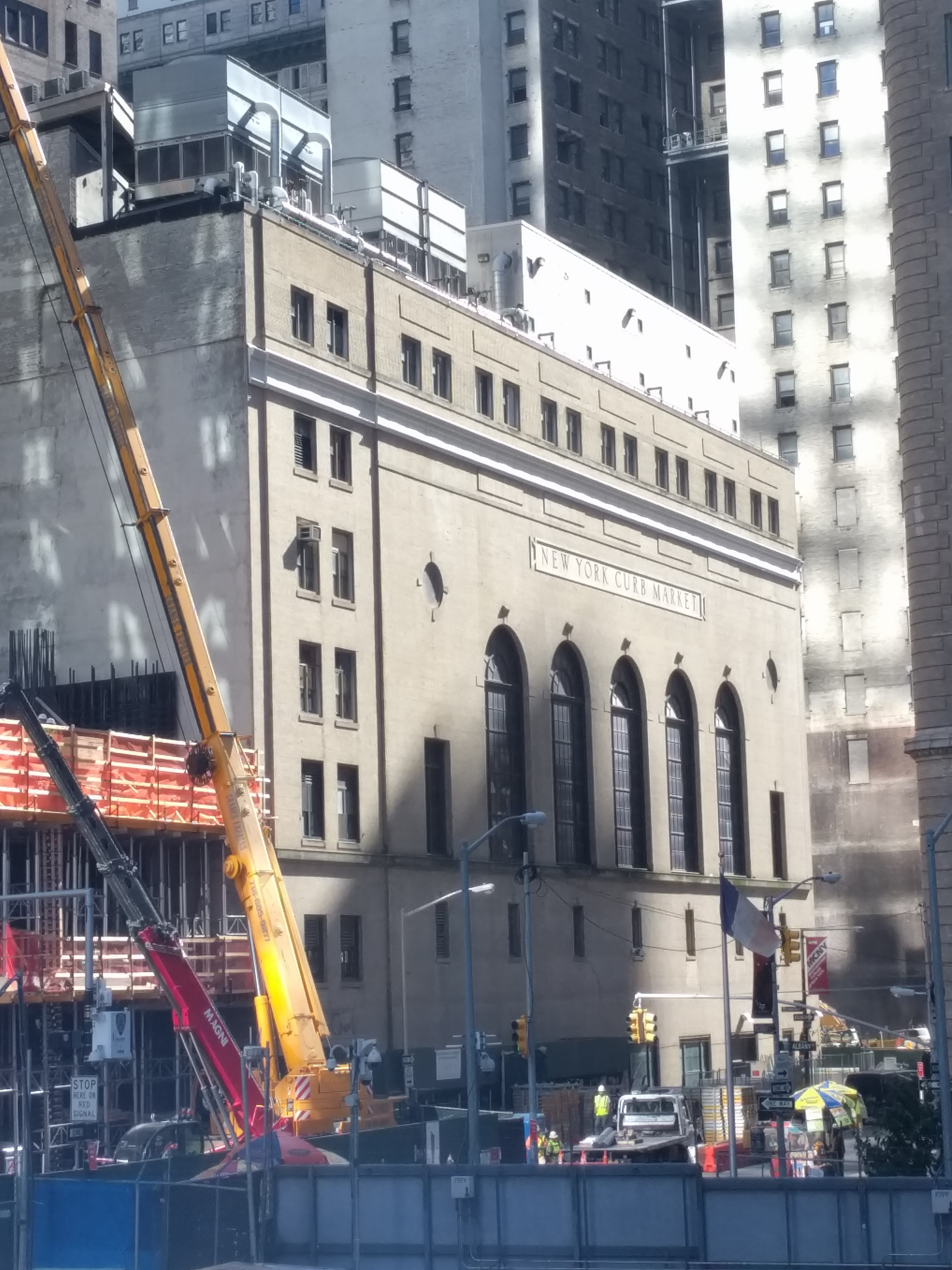 Looking South from Liberty Park